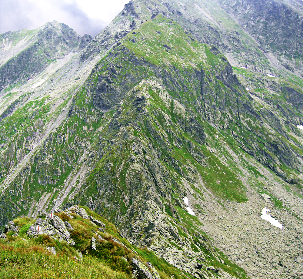 Custura Saratii in Fagaras Mountains, Southern Carpathians, Romania